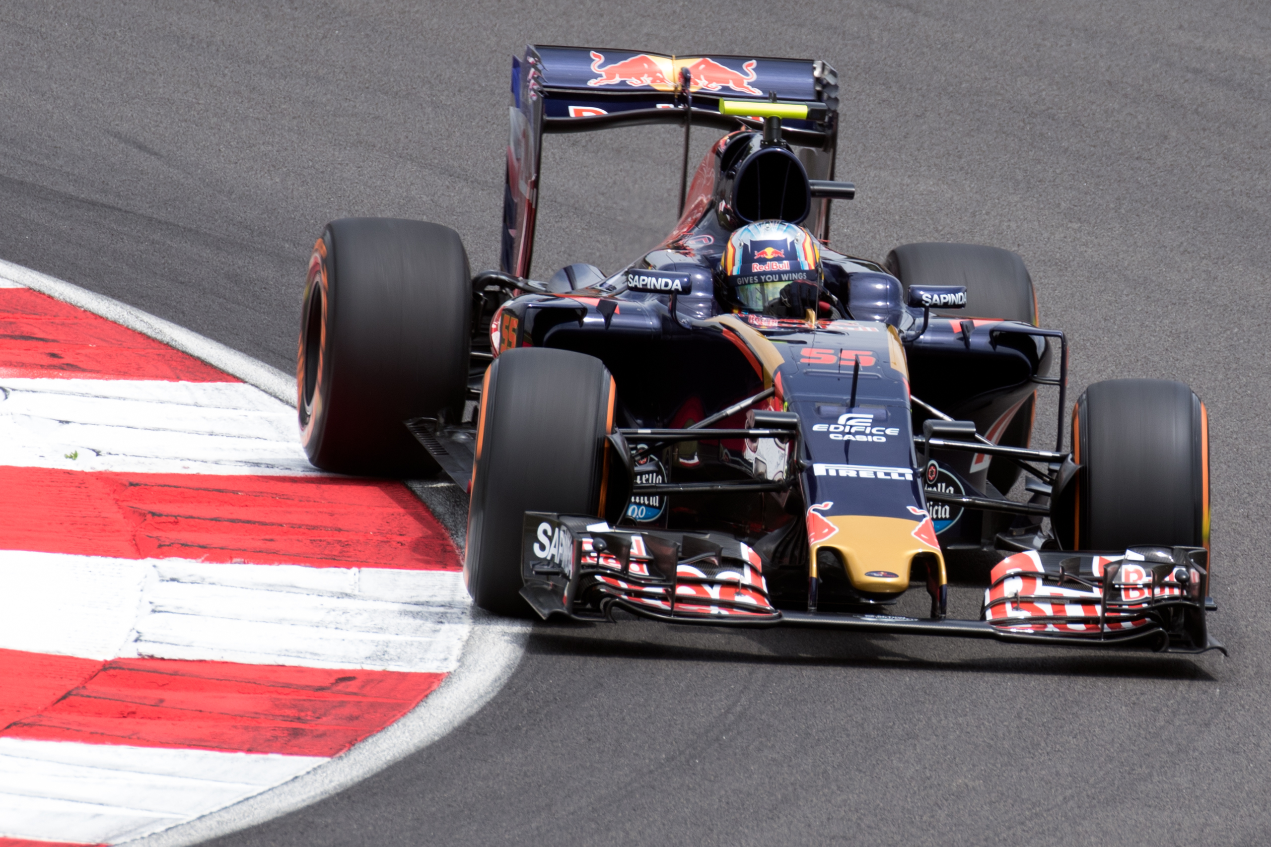 Formula One 2016 Rd.16 Malaysian GP: Carlos Sainz Jr. (Toro Rosso)